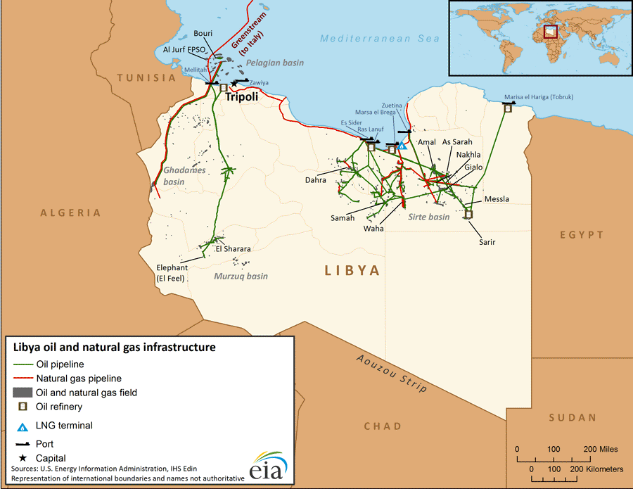 Infrastructure of Libya: oil an gas fields, refineries and pipelines